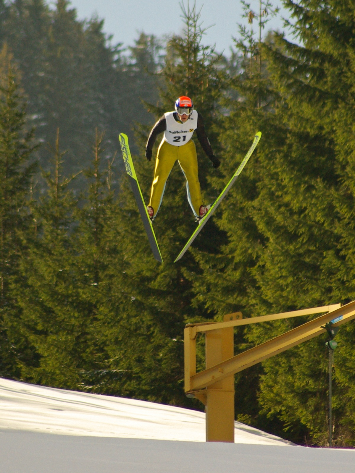 French nordic combined skier Florian Pinel during the World Cup B sprint event in Eisenerz (Austria) on 9 March 2008.